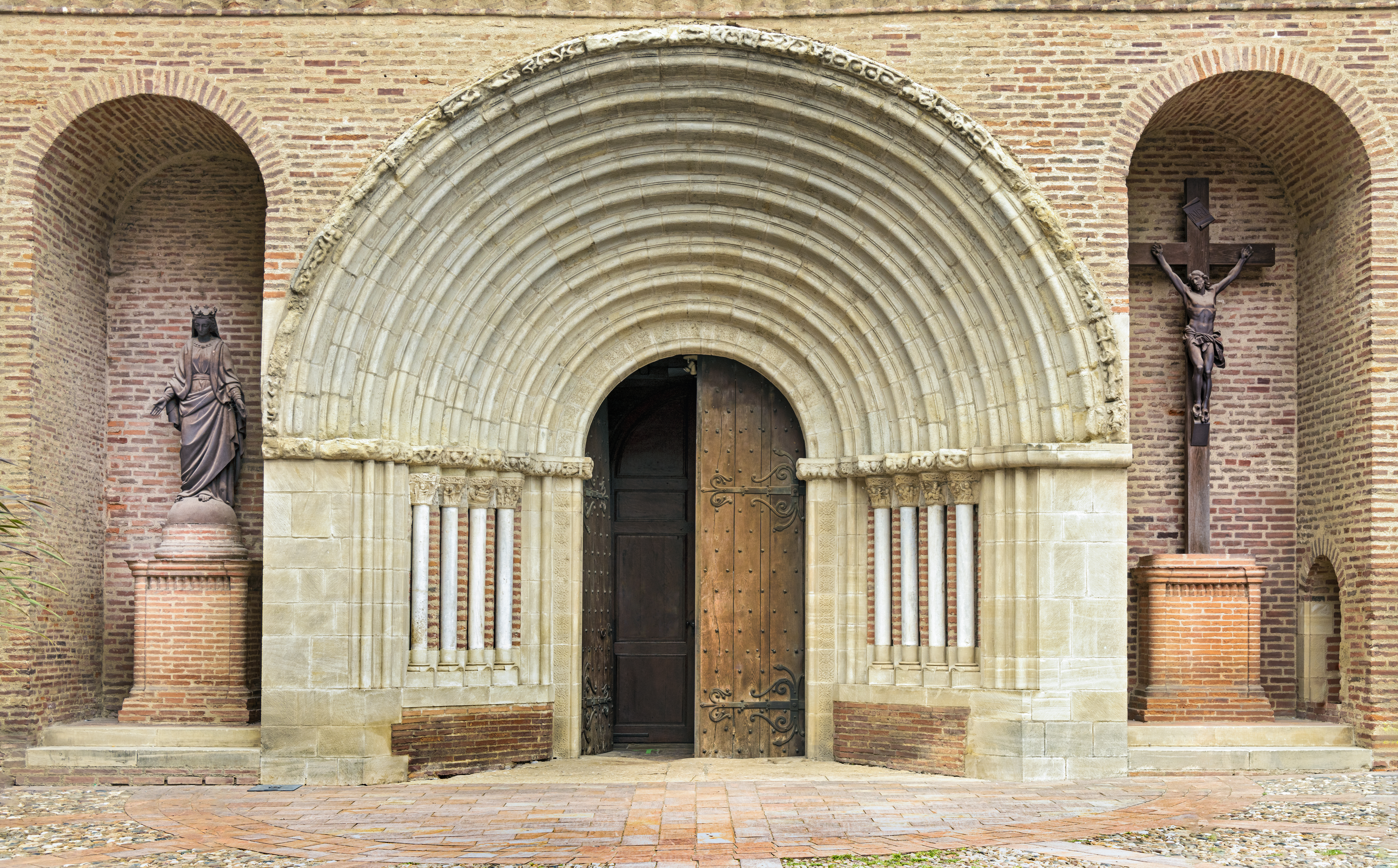 Church Notre-Dame-du-Bourg Rabastens in the Tarn department - Portal